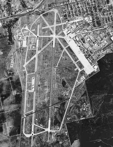 USGS digital orthophoto of Big Spring Airport, formerly Big Spring Army Airfield and Webb Air Force Base, in Big Spring, Texas, United States.